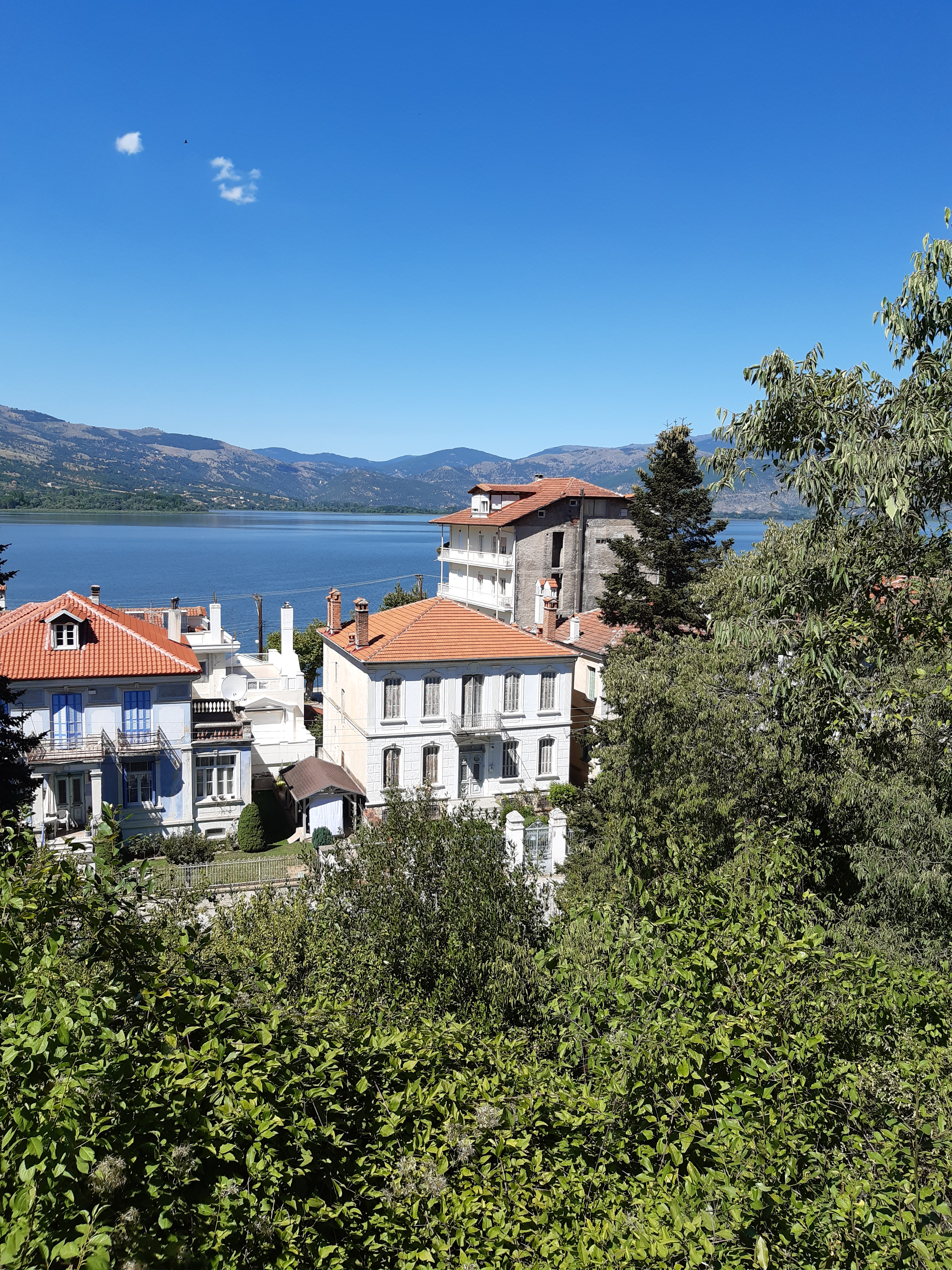 Dais and Ikonomidis Mansions in August 2020